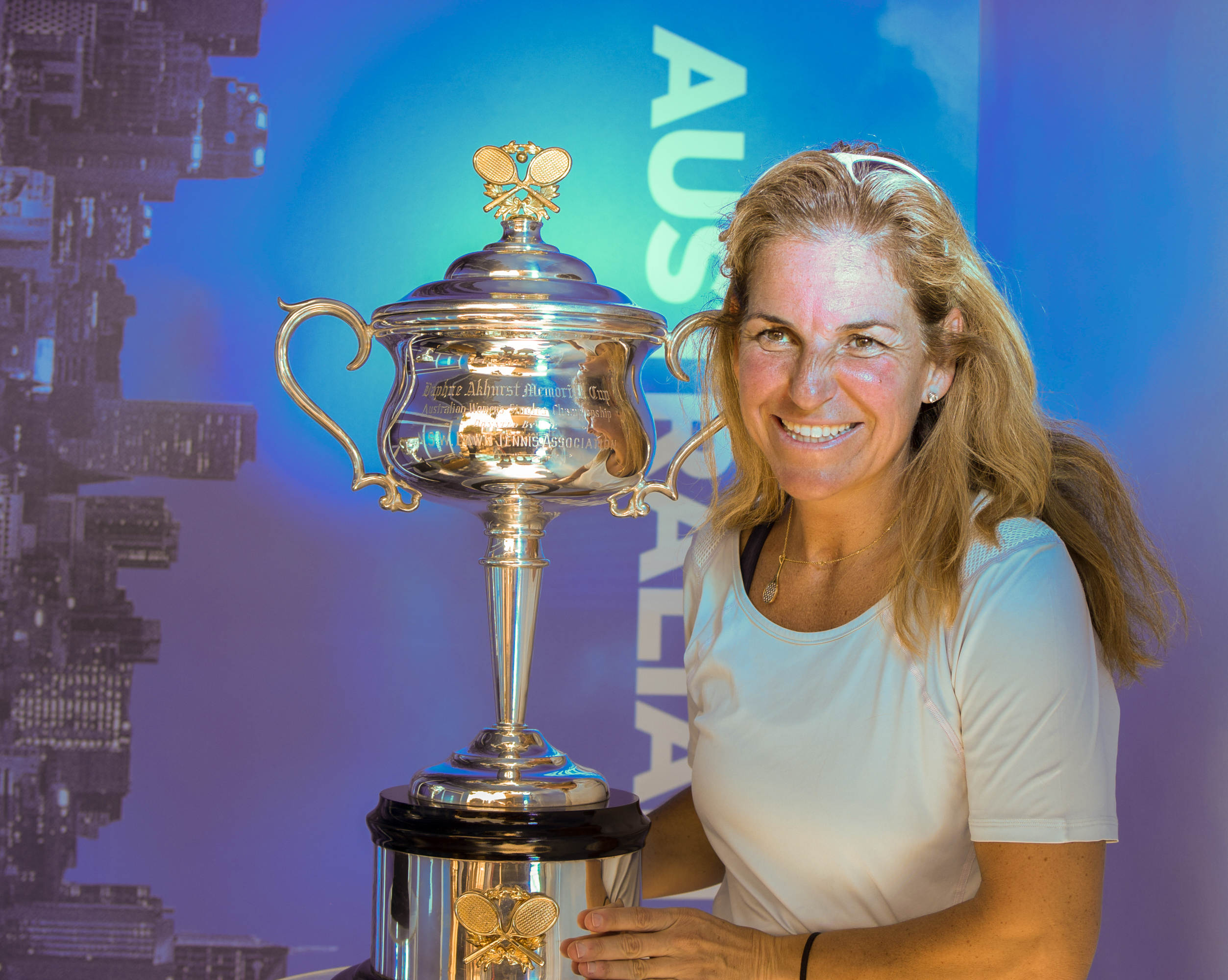 Arantxa Sánchez Vicario at the 2016 Australian Open